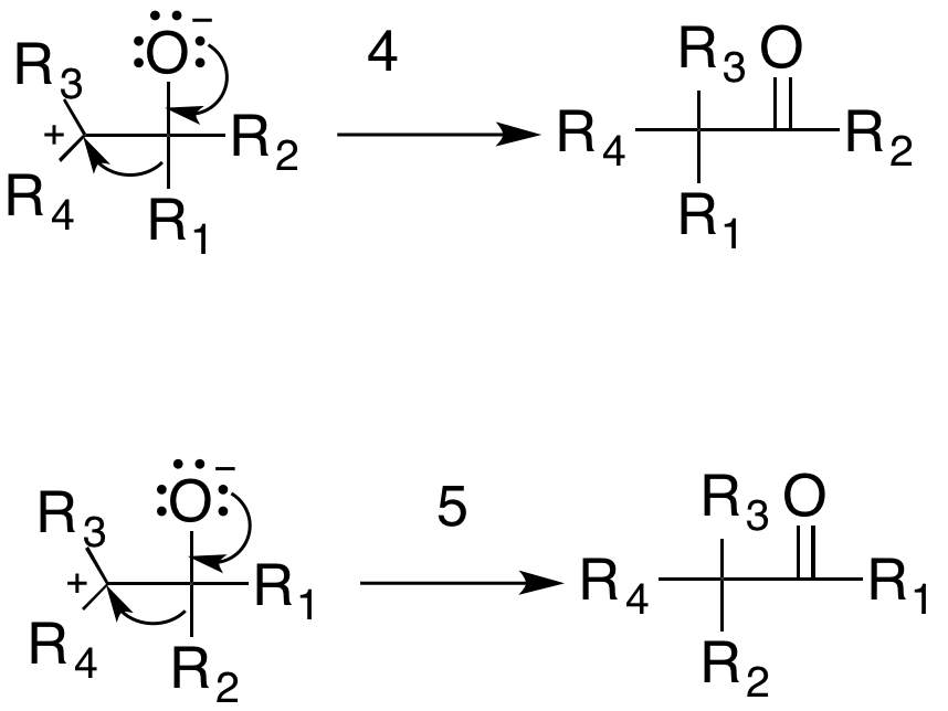 The production of the two carbonyl products from the carbocation intermediate